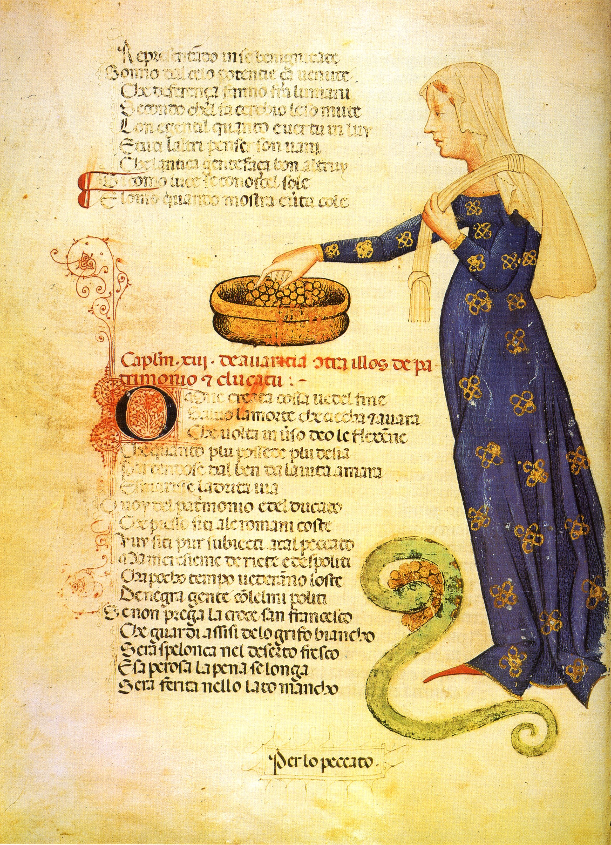 Cecco d’Ascoli, L’Acerba, chapter on greed. Florence, Biblioteca Medicea Laurenziana, Plut. 40.52, fol. 24v.